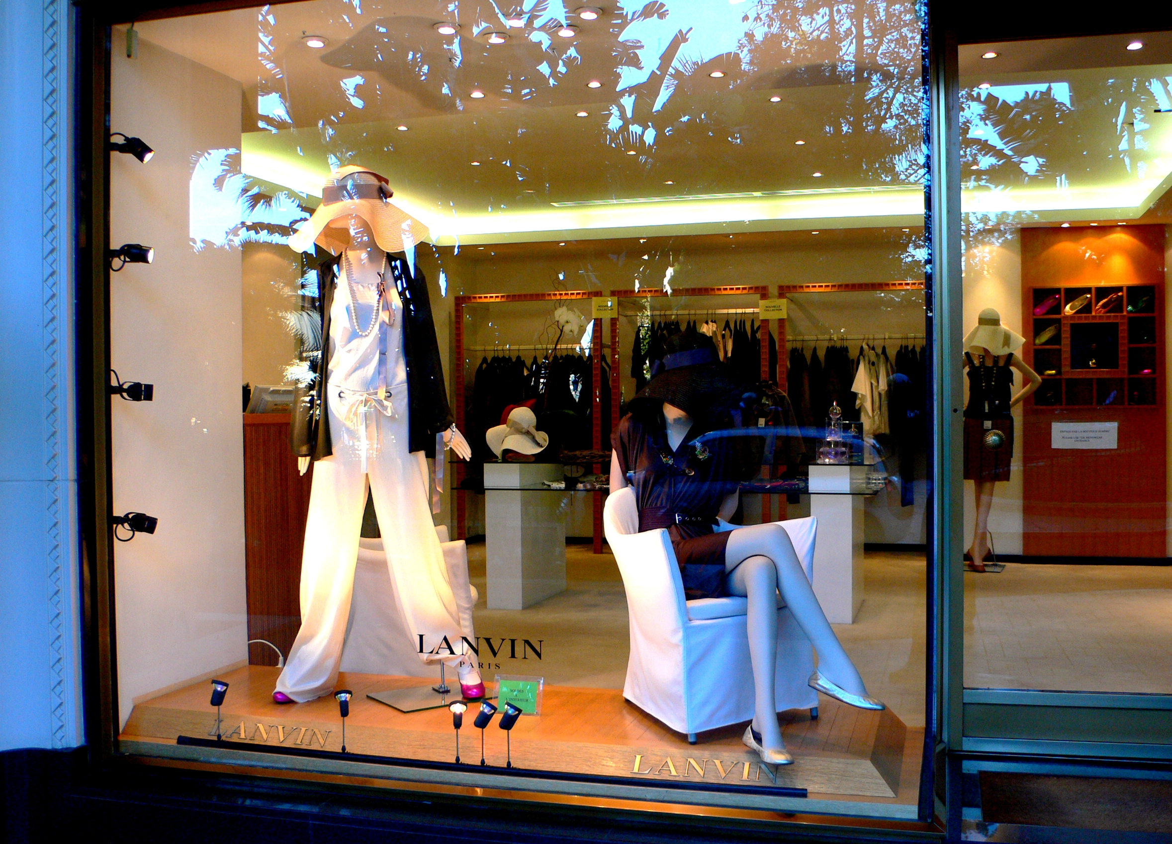 Lanvin at Monte Carlo